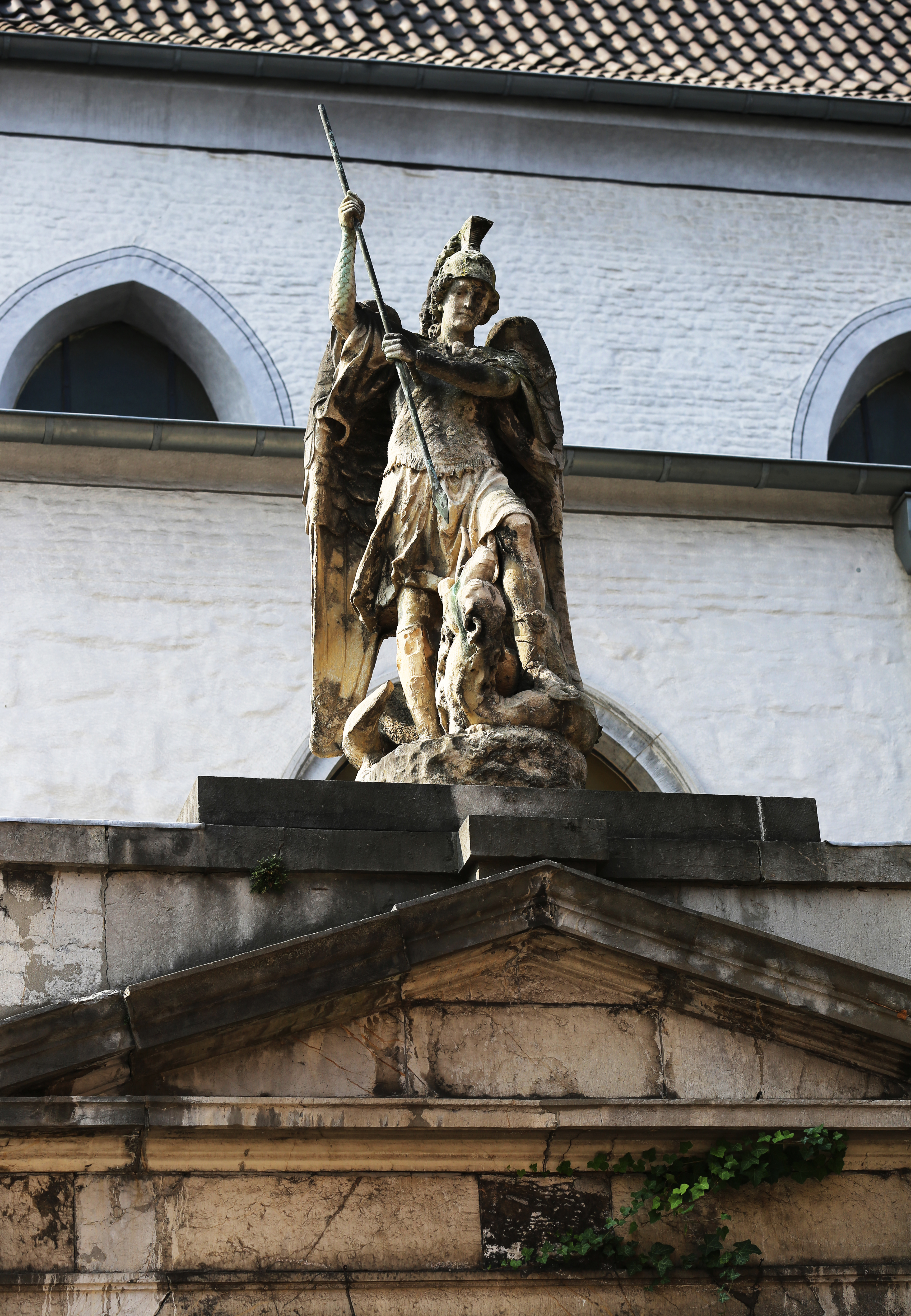 The greek-orthodox church St. Michael and St. Dimitrios, is a former Jesuit church in the Jesuit street Aachen, Germany.